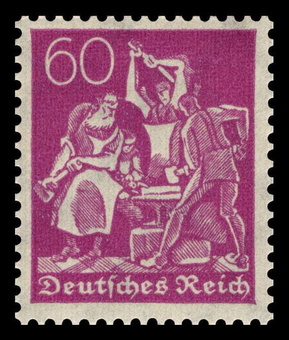 definitive stamp series numbers, workers and post horns Graphics by Paul Neu Ausgabepreis: 60 Pfennig First Day of Issue / Erstausgabetag: Oktober 1921 (WZ Rauten) und Januar 1922 (WZ Waffeln) Michel-Katalog-Nr: 165 und 184 (Deutsches Reich)